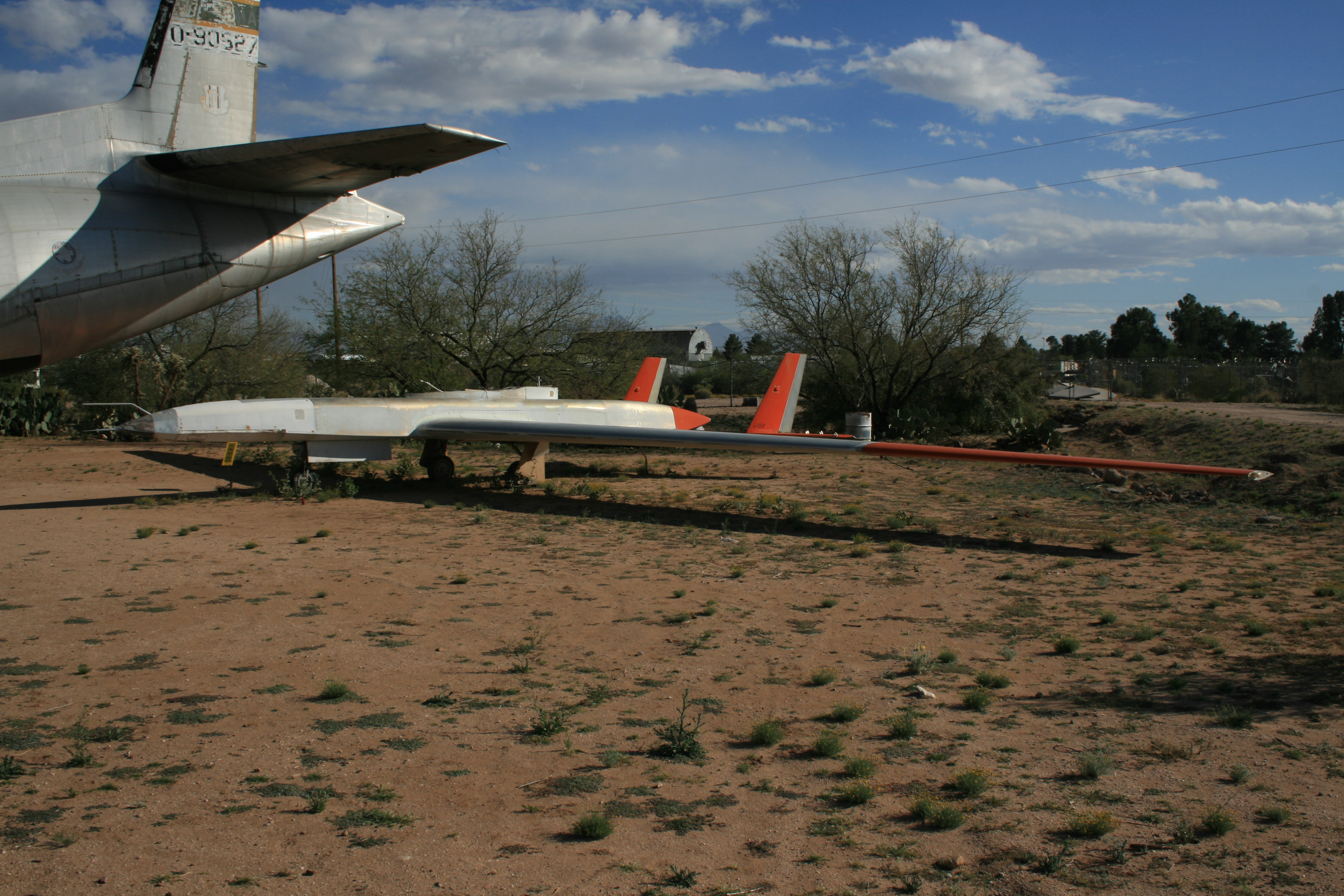 A YQM-98A drone, Ryan Aeronautical's unsuccessful entry in the USAF's Compass Cope competition. This example, serial number 72-1872, is depicted at the Pima Air & Space Museum in Tucson, Arizona on outdoor display with its engine removed. It was subsequently placed in storage at the National Museum of the United States Air Force in Dayton, Ohio.